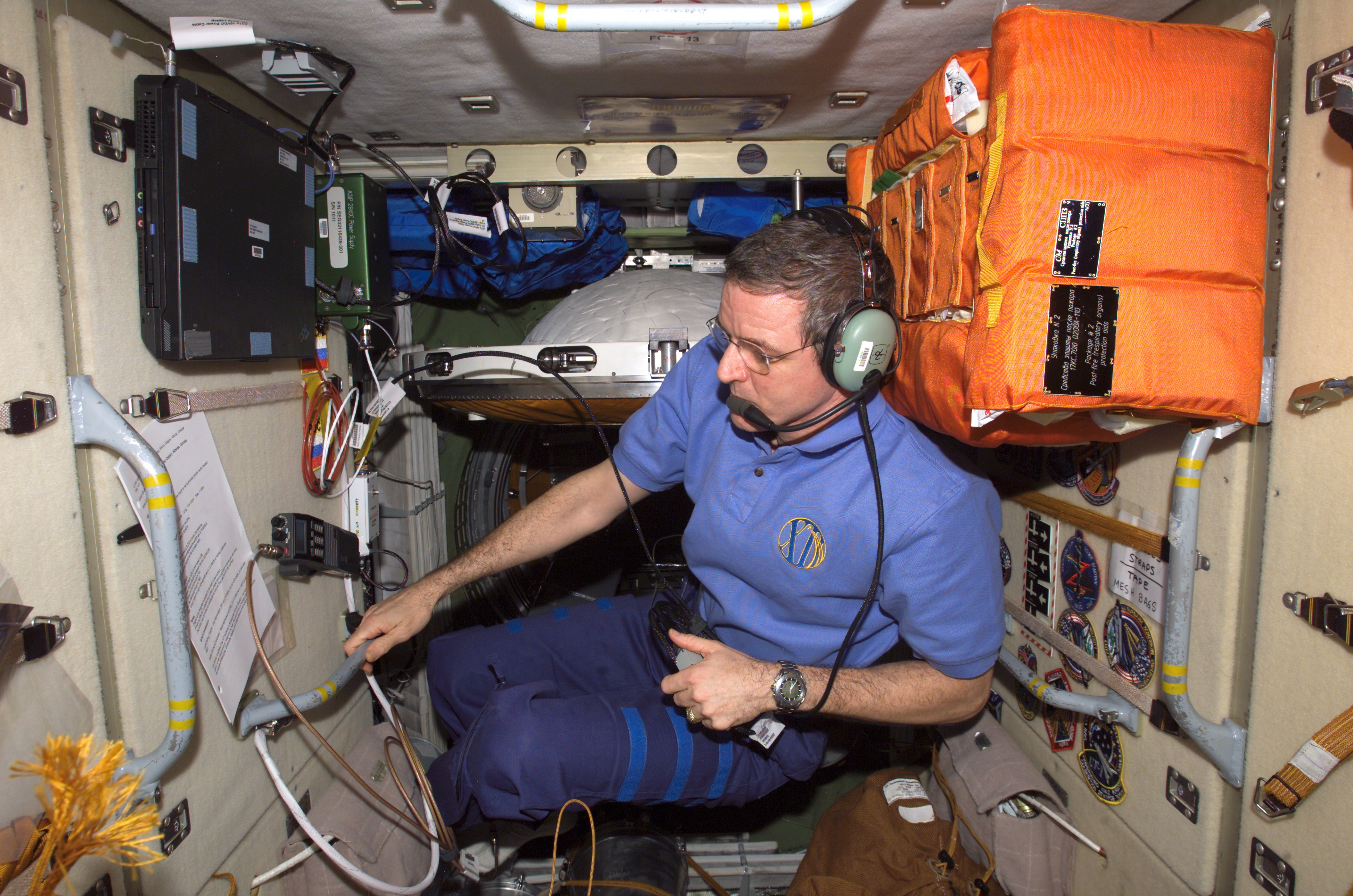 Astronaut William S. McArthur Jr., Expedition 12 commander and NASA science officer, talks on the ARISS (Amateur Radio on the International Space Station) inside the Zarya Functional Cargo Block during his scheduled amateur radio session. This session is with the Sir James Lougheed Elementary School, Calgary, Alberta, Canada.